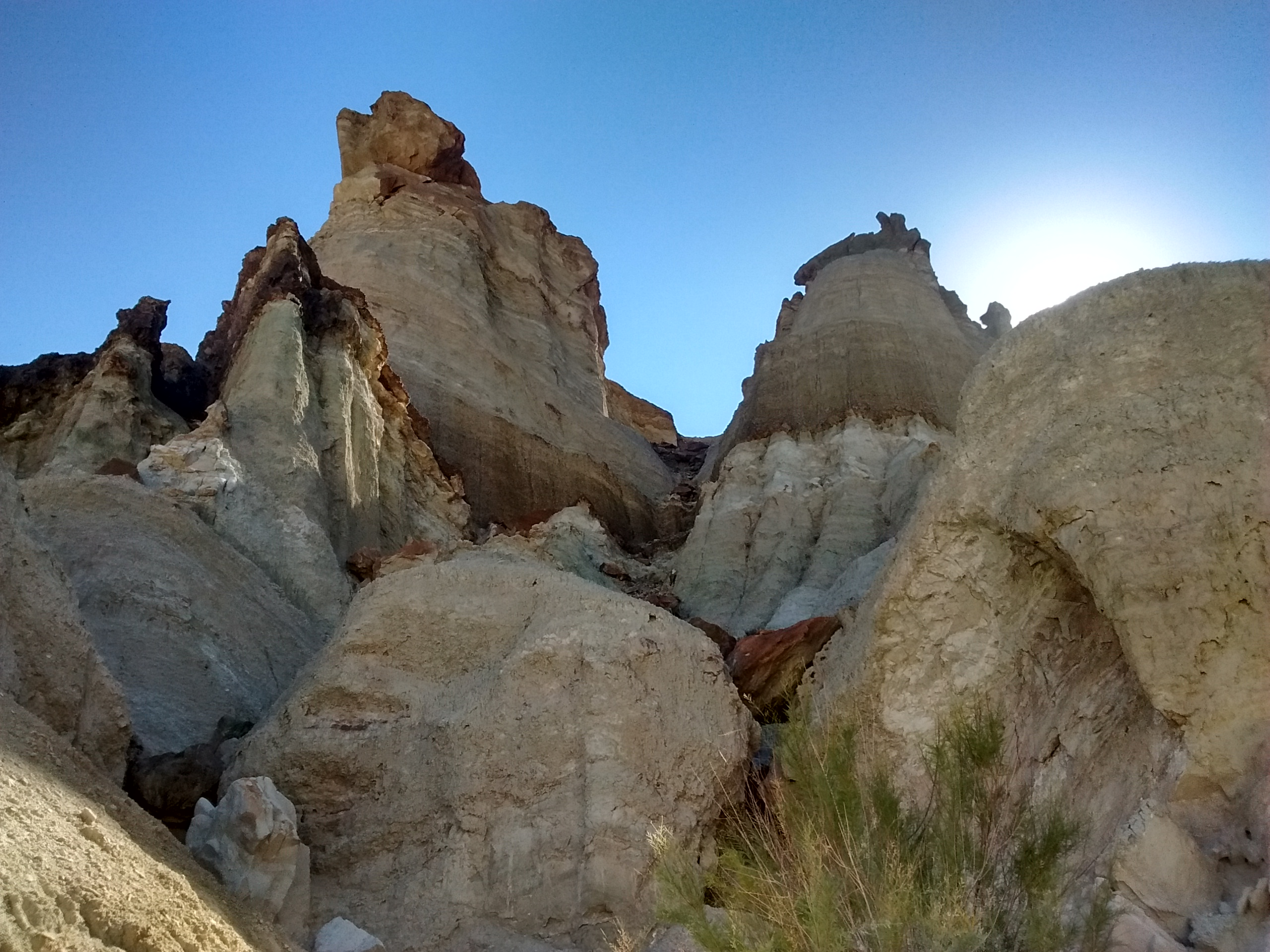 View of El Alcázar Hill near Tamberías, in Calingasta, San Juan, Argentina.